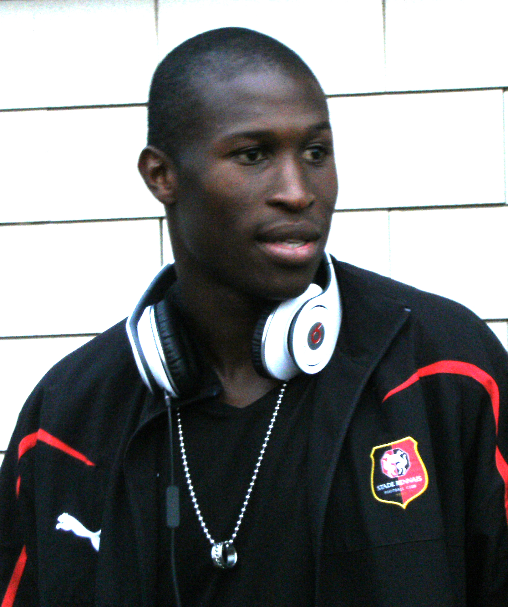 Rod Fanni after a friendly game between Stade rennais FC and Stade Malherbe de Caen in Ouistreham